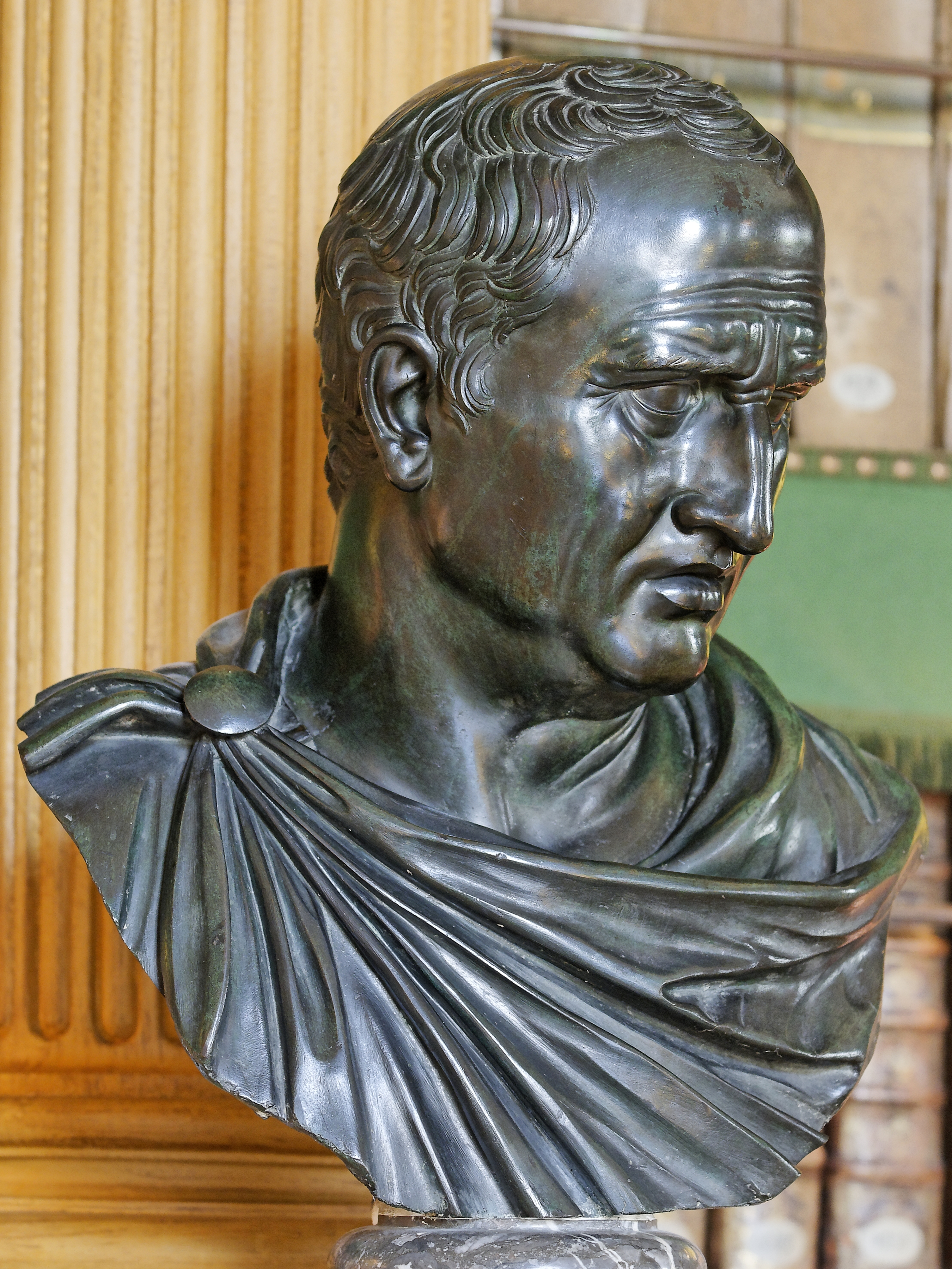 Bronze bust of Cicero, Reading Room of the Bibliothèque Mazarine, Paris.